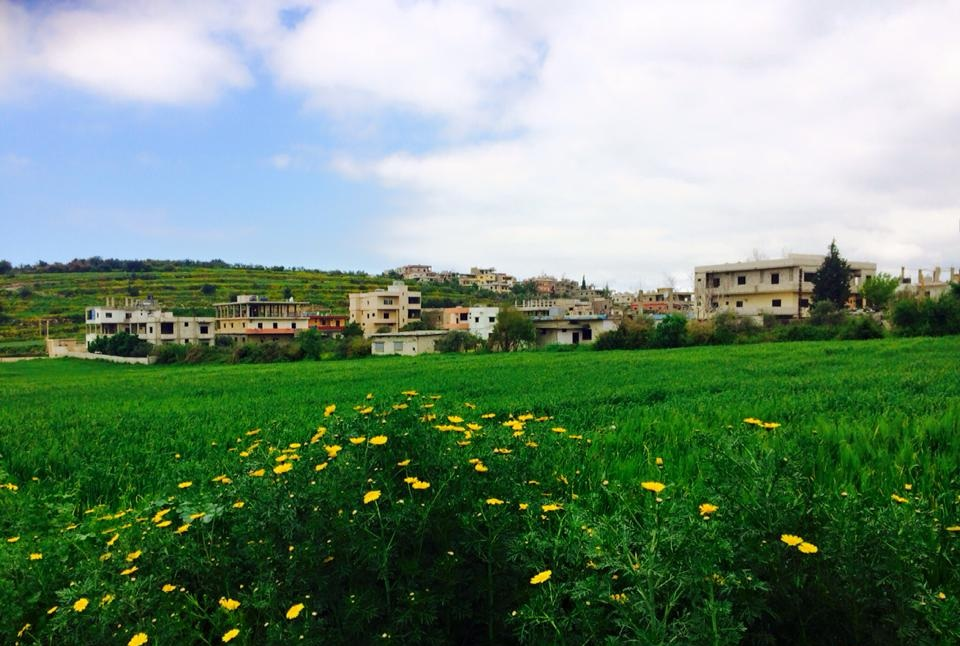 بلدة برقايل